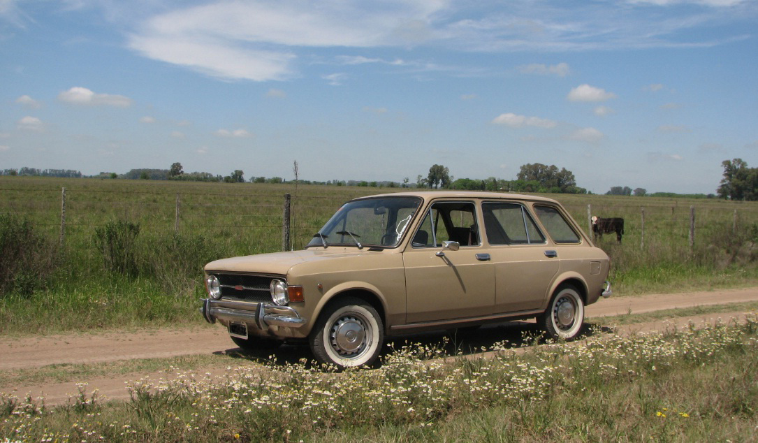 Fiat 128